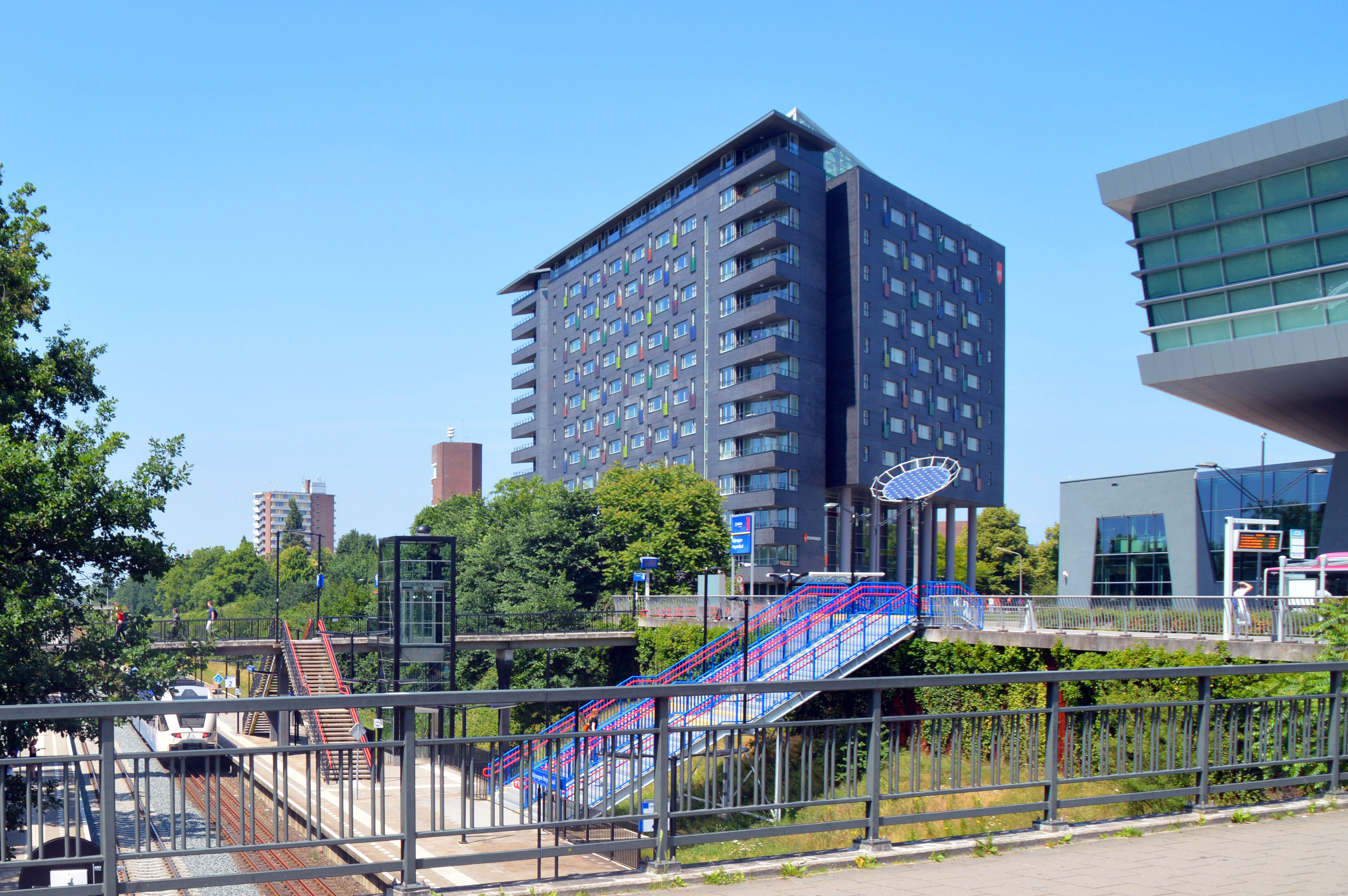 Station Nijmegen Heyendaal with Technovium on the right